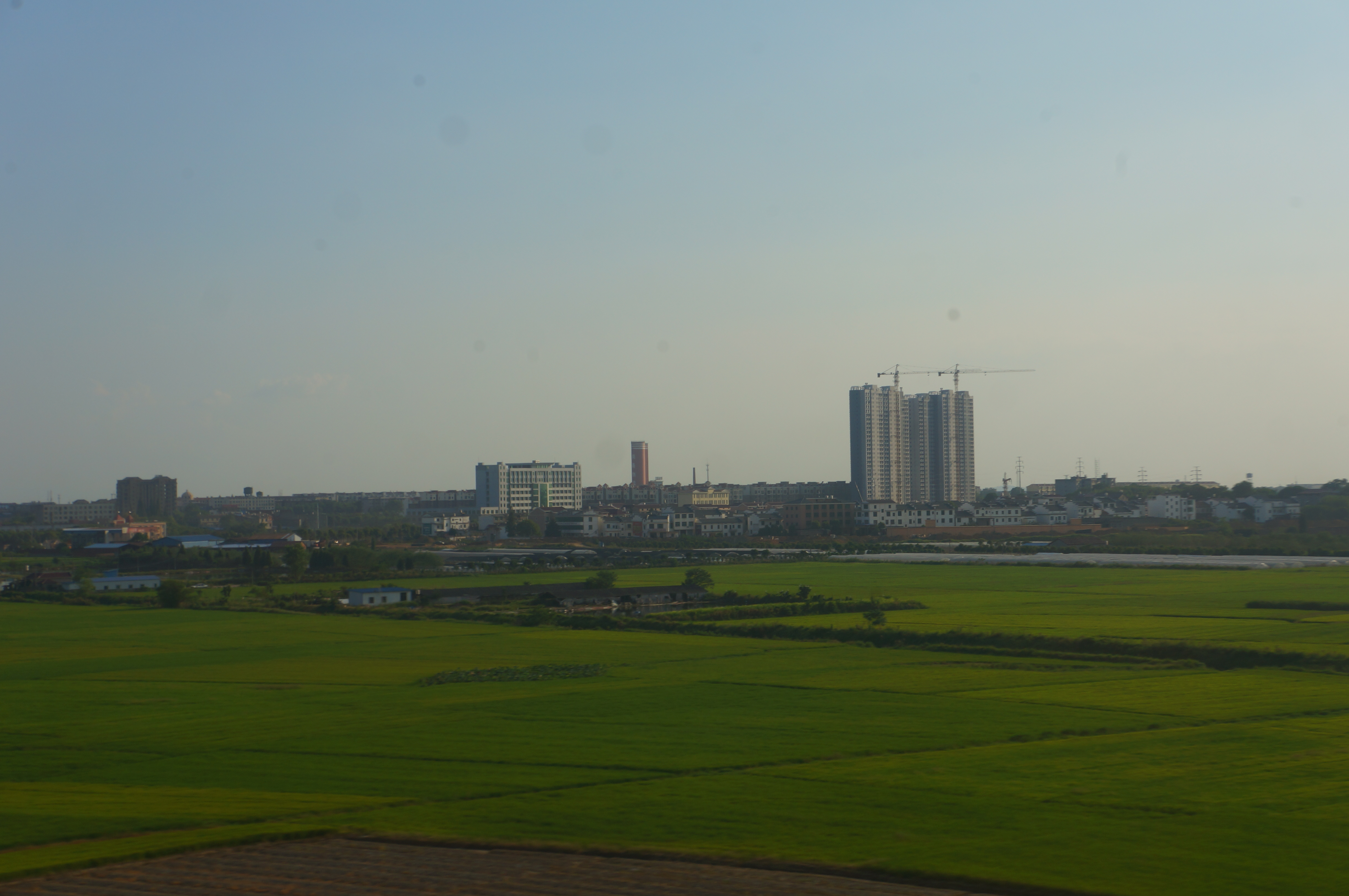 201608 Xiangtang, a huge railway hub is located in Nanchang County